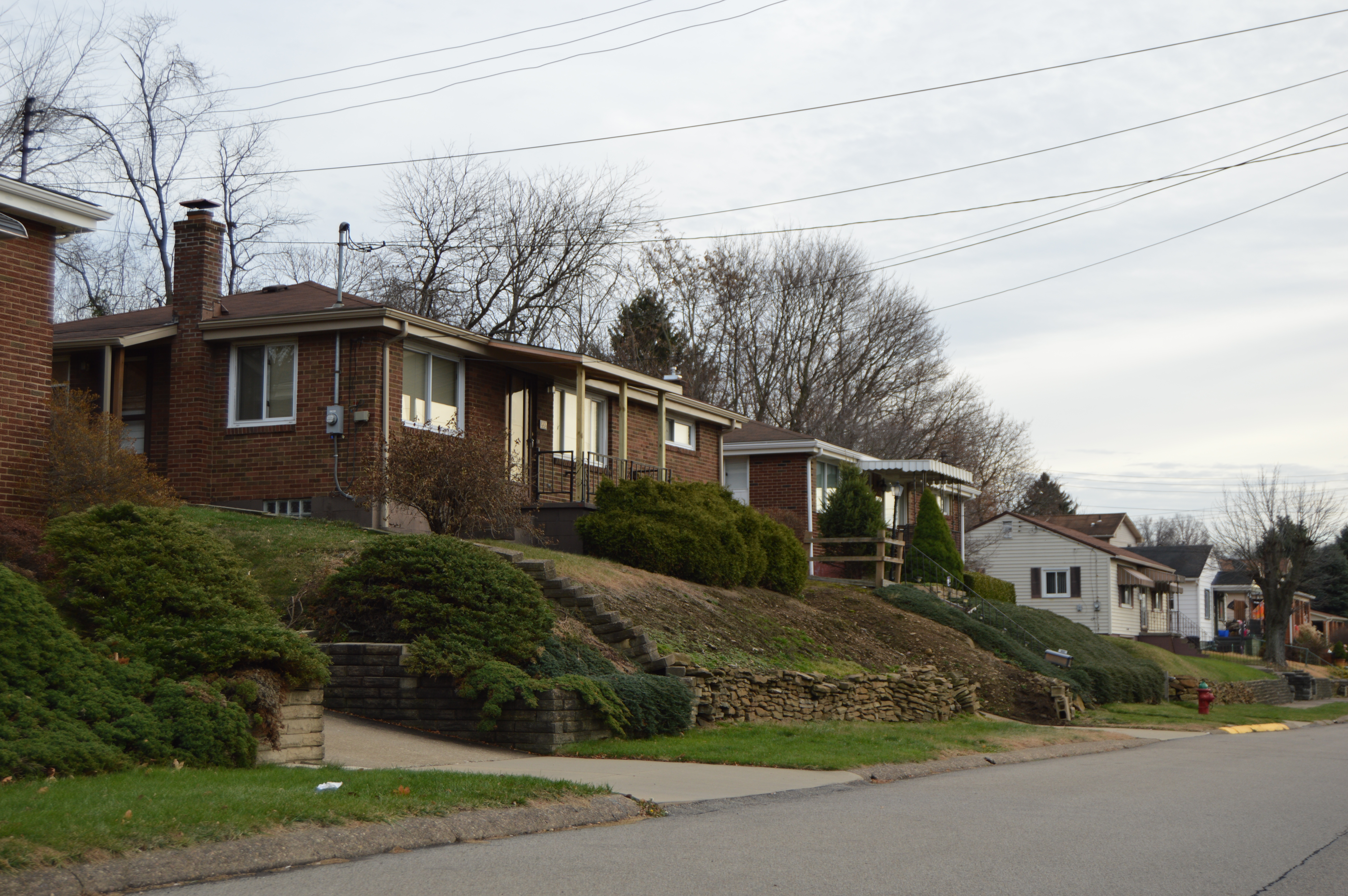 Houses on the eastern side of the 200 block of Berry Street in Baden, Pennsylvania, United States.